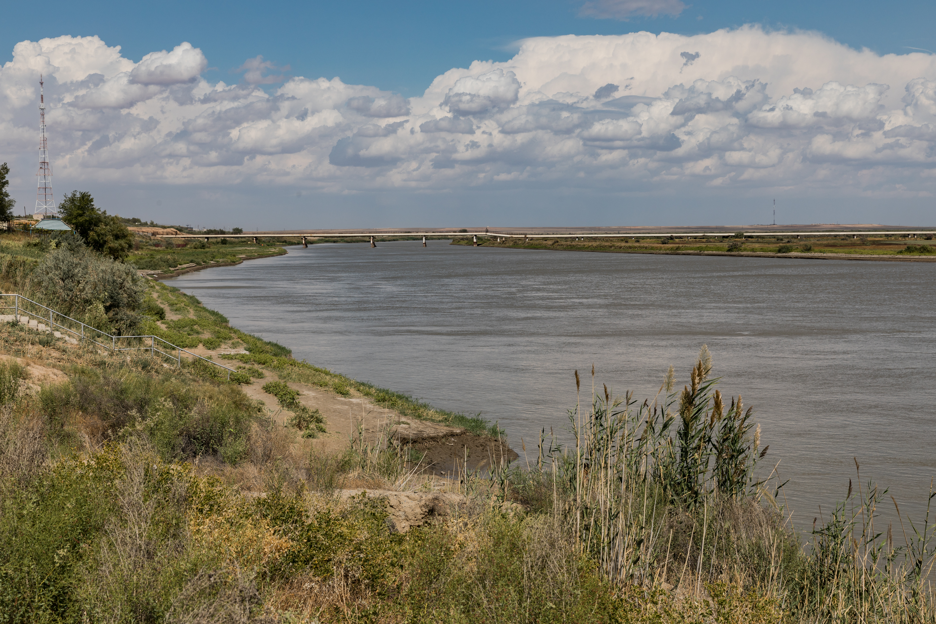 Syr-Darya river in Baikonur, Kizilorda region, Kazakhstan